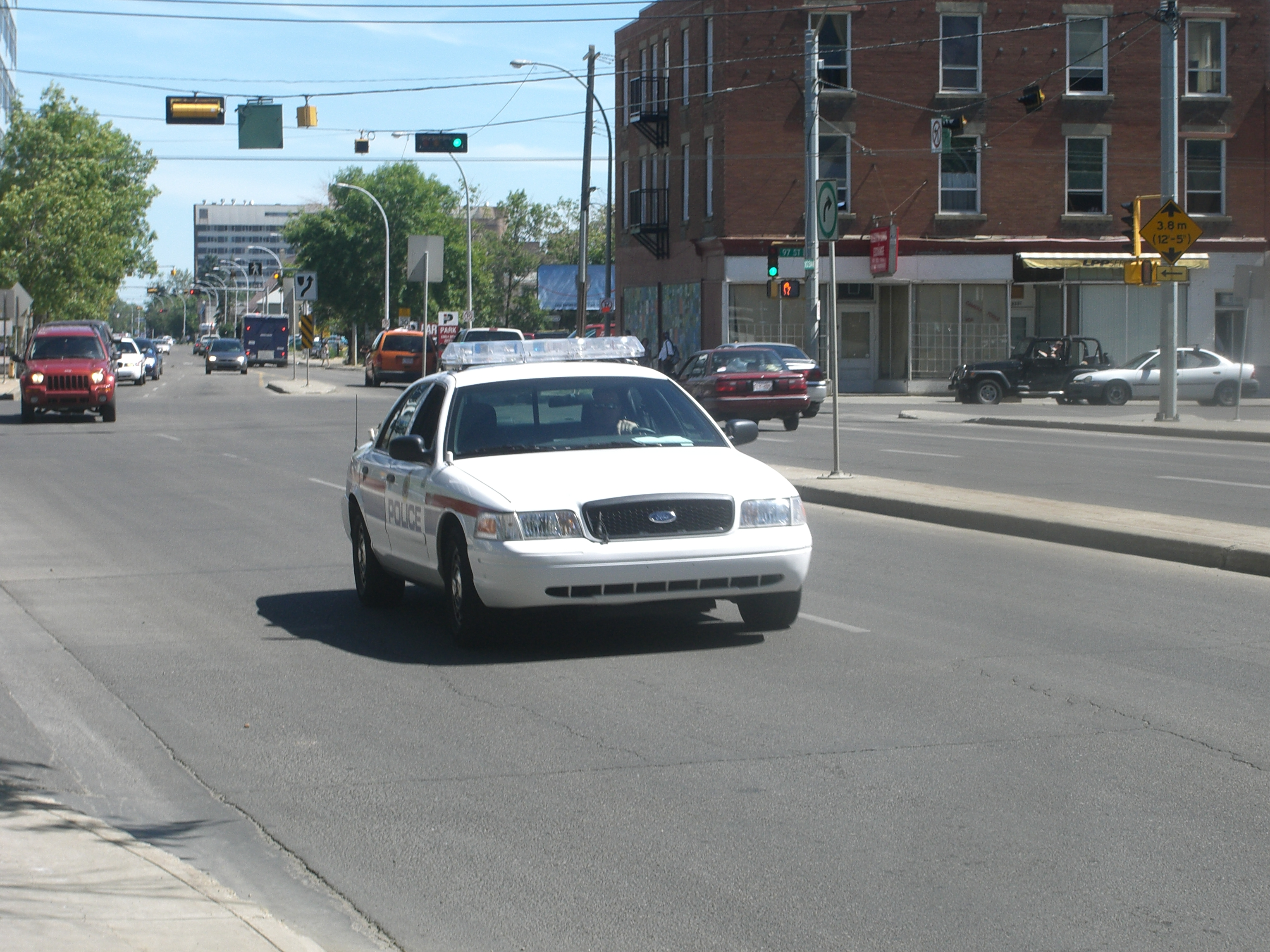 Edmonton Police Service vehicle on patrol Myke Waddy, July 21st 2006, Edmonton Alberta